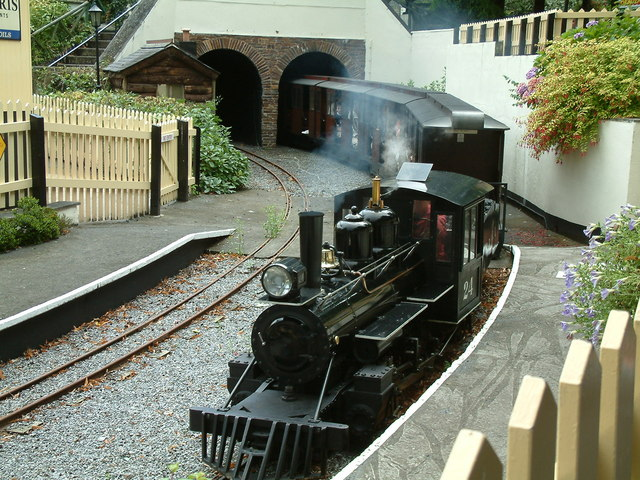 Newton Abbot, Miniature Railway at Trago Mills. The railway gives a real value for money ride as it tours the whole complex.